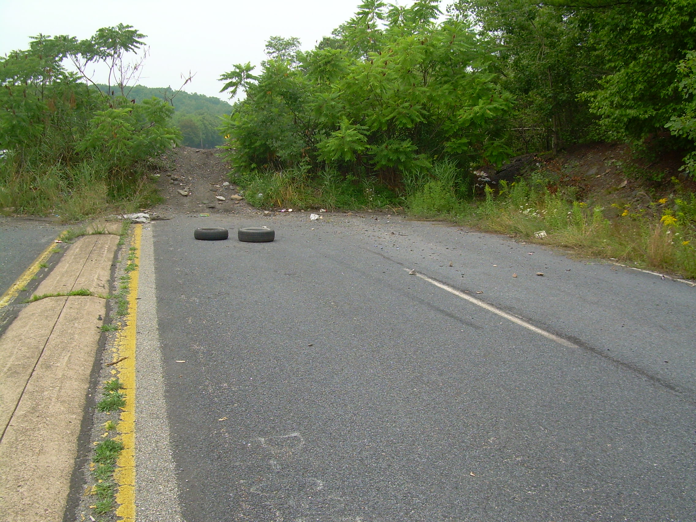 Abandoned section of Pennsylvania Route 61, destroyed by the Centralia mine fire. The highway was re-routed around the disaster area.